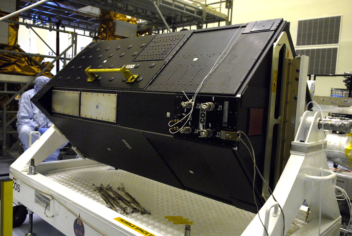 The outside of the Cosmic Origins Spectrograph, or COS, is seen before black light inspection in the clean room of the Payload Hazardous Processing Facility at NASA's Kennedy Space Center. Black light inspection uses UVA fluorescence to detect possible particulate microcontamination, minute cracks or fluid leaks. The COS will be installed on the Hubble Space Telescope on space shuttle Atlantis' STS-125 mission. COS will be the most sensitive ultraviolet spectrograph ever flown on Hubble and will probe the "cosmic web" - the large-scale structure of the universe whose form is determined by the gravity of dark matter and is traced by galaxies and intergalactic gas.